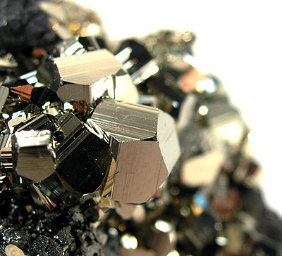 Bournonite, Pyrite Locality: Silver King Mine, Trojan District (Providence District), Providence Mts, San Bernardino County, California, USA (Locality at ) Size: small cabinet, 7.5 x 5.8 x 3.3 cm Bournonite with Pyrite (Utah!) Crystals of dark gray bournonite form the matrix for mirror bright, golden crystals of golden pyrite. These modified and striated crystals reach .5 cm across. The contrast in color and luster is outstanding. Very unusual locality piece! 7.5 x 5.8 x 3.3 cm